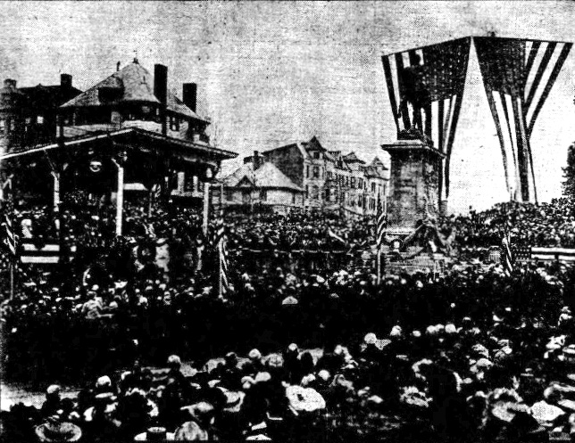 Dedication of the Major General George B. McClellan statue in Washington, D.C.